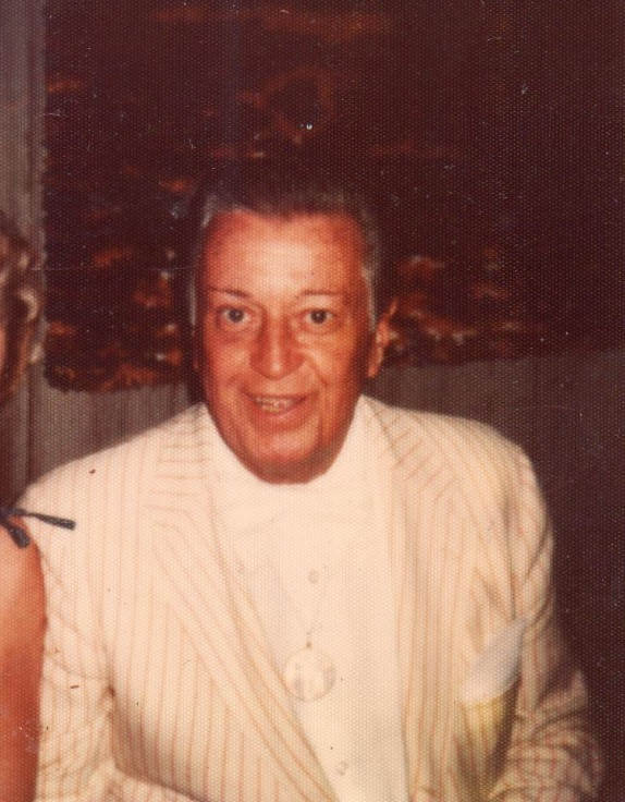 Singer, musician, actor and dancer Joseph Wagstaff. Taken in Michiagn in the 1970s by my dad.